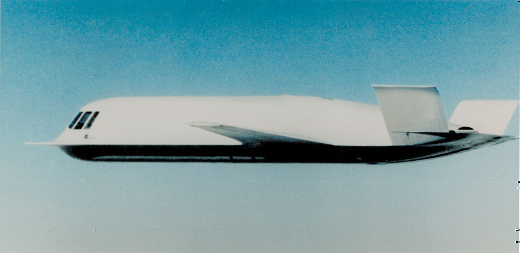 The U.S. Air Force unveiled the Tacit Blue Technology Demonstration Program on April 30, 1996, at the Pentagon. Tacit Blue was created to demonstrate that a low observable surveillance aircraft with a low probability of intercept radar and other sensors could operate close to the forward line of battle with a high degree of survivability. Such an aircraft could continuously monitor the ground situation behind the battlefield and provide targeting information in real-time to a ground command center. Tacit Blue validated a number of innovative stealth technology advances.Tacit Blue featured a straight tapered wing with a Vee tail mounted on an oversized fuselage with a curved shape. The aircraft has a wingspan of 48.2 feet and a length of 55.8 feet and weighed 30,000 pounds. A single flush inlet on the top of the fuselage provided air to two high-bypass turbofan engines. Tacit Blue employed a quadruply redundant, digital fly by wire flight control system to help stabilize the aircraft about the longitudinal and directional axes.The aircraft made its first flight in February 1982, and subsequently logged 135 flights over a three year period. The aircraft often flew three to four flights weekly and several times flew more than once a day. The aircraft has been in storage since 1985.